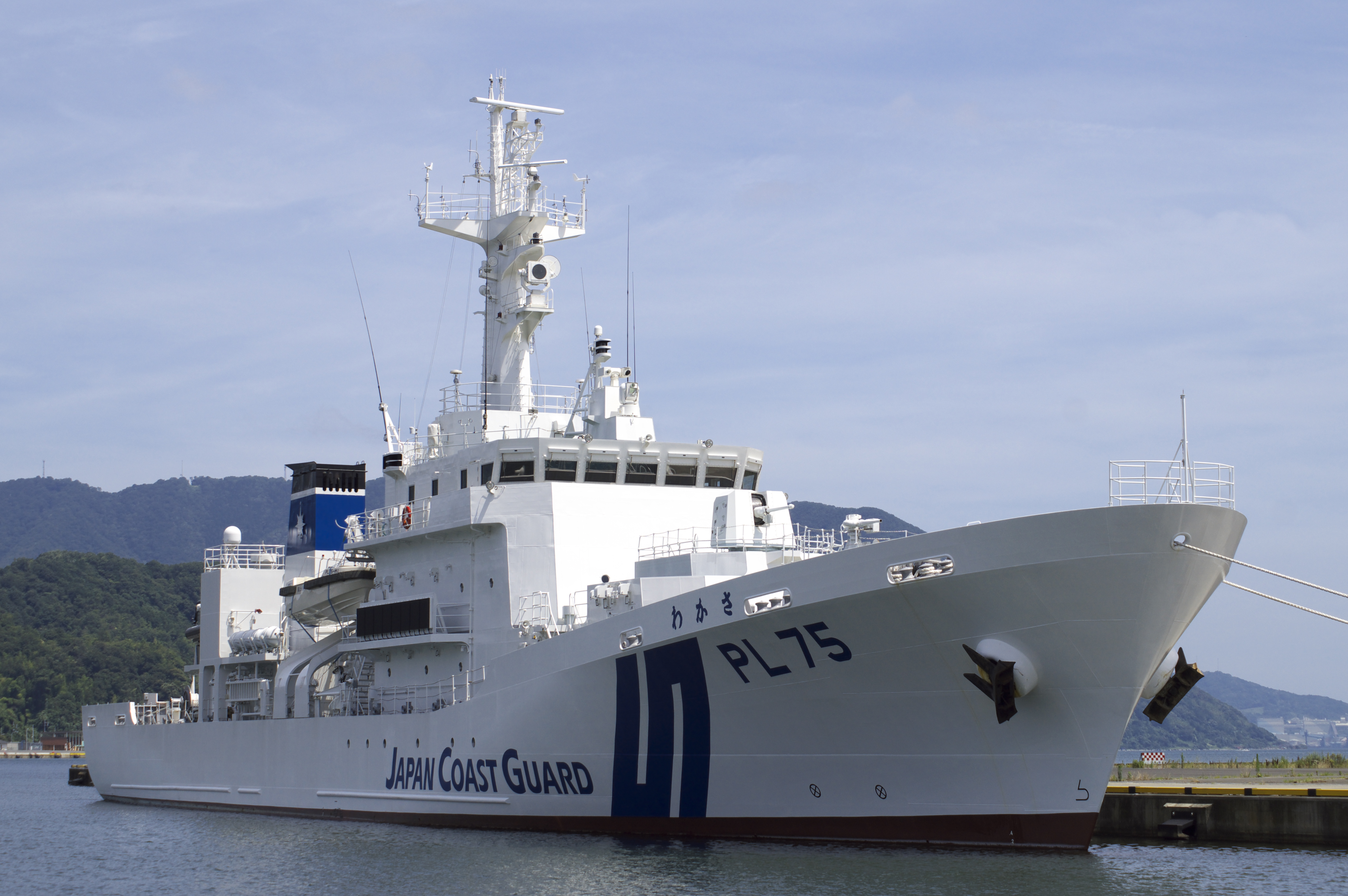 "JCG Wakasa" (PL-75) in Maizuru West Port, July 12, 2015